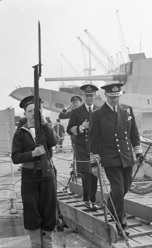 The Royal Navy during the Second World War Vice-Admiral Whitworth, the Second Sea Lord, coming ashore after inspecting HMS VANESSA at the port of Liverpool. A sentry is presenting arms with a fixed bayonet by the end of the gang plank.